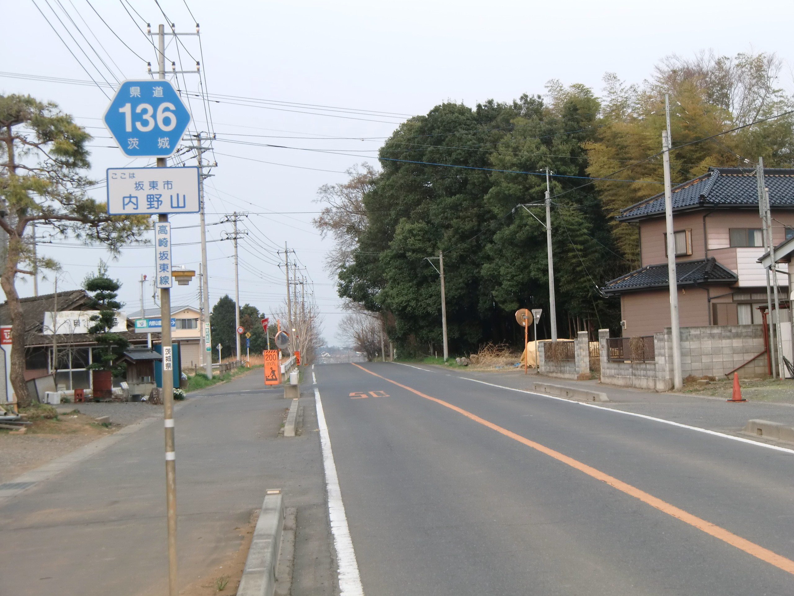 Ibaraki prefectural road 136(Takasaki-Bando line) in Uchinoyama, Bando-city, Ibaraki-pref, Japan.